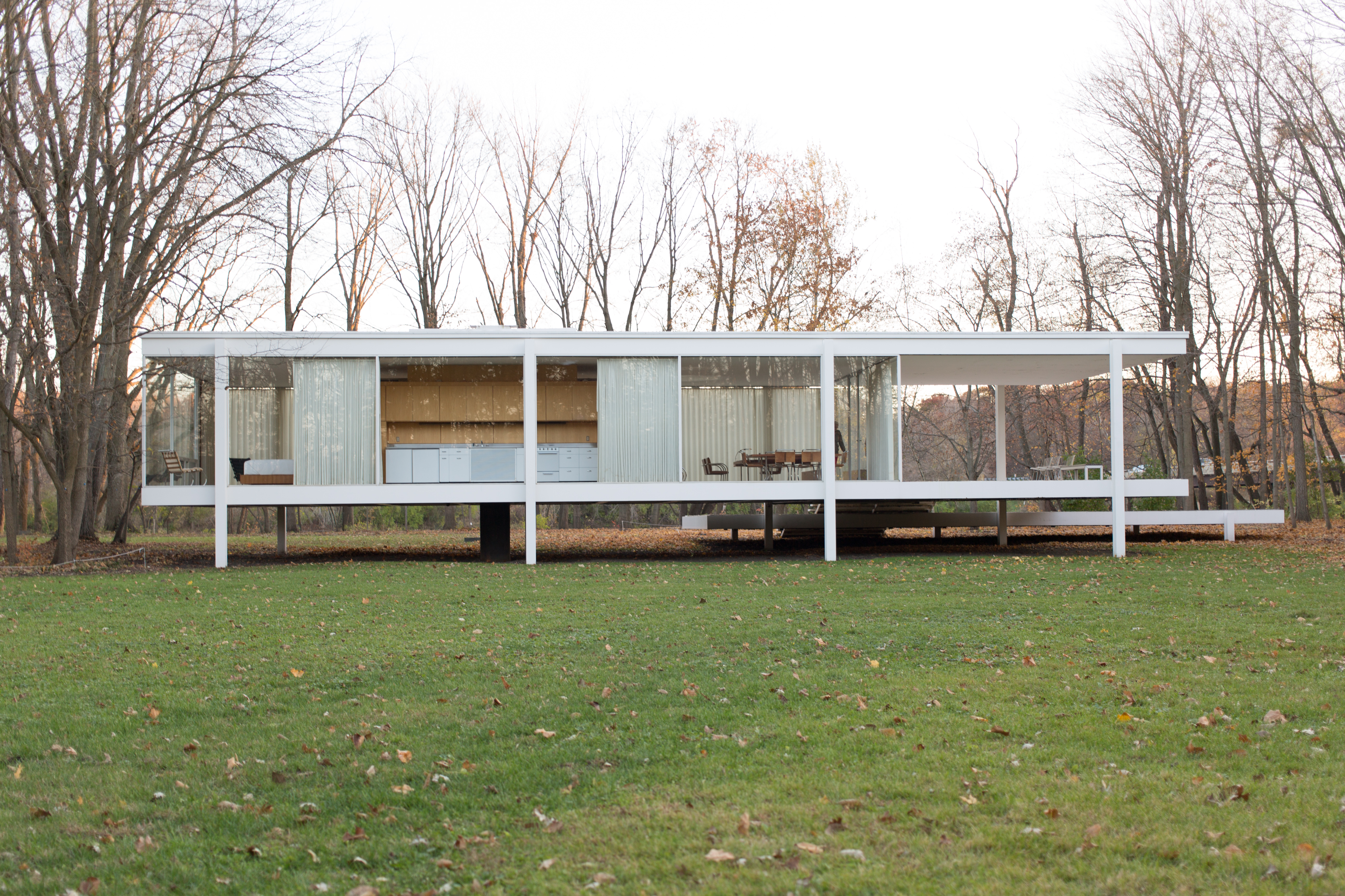 Farnsworth House by Mies Van Der Rohe